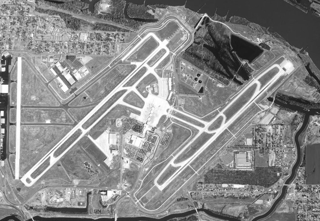 USGS orthophoto of Little Rock National Airport, Arkansas